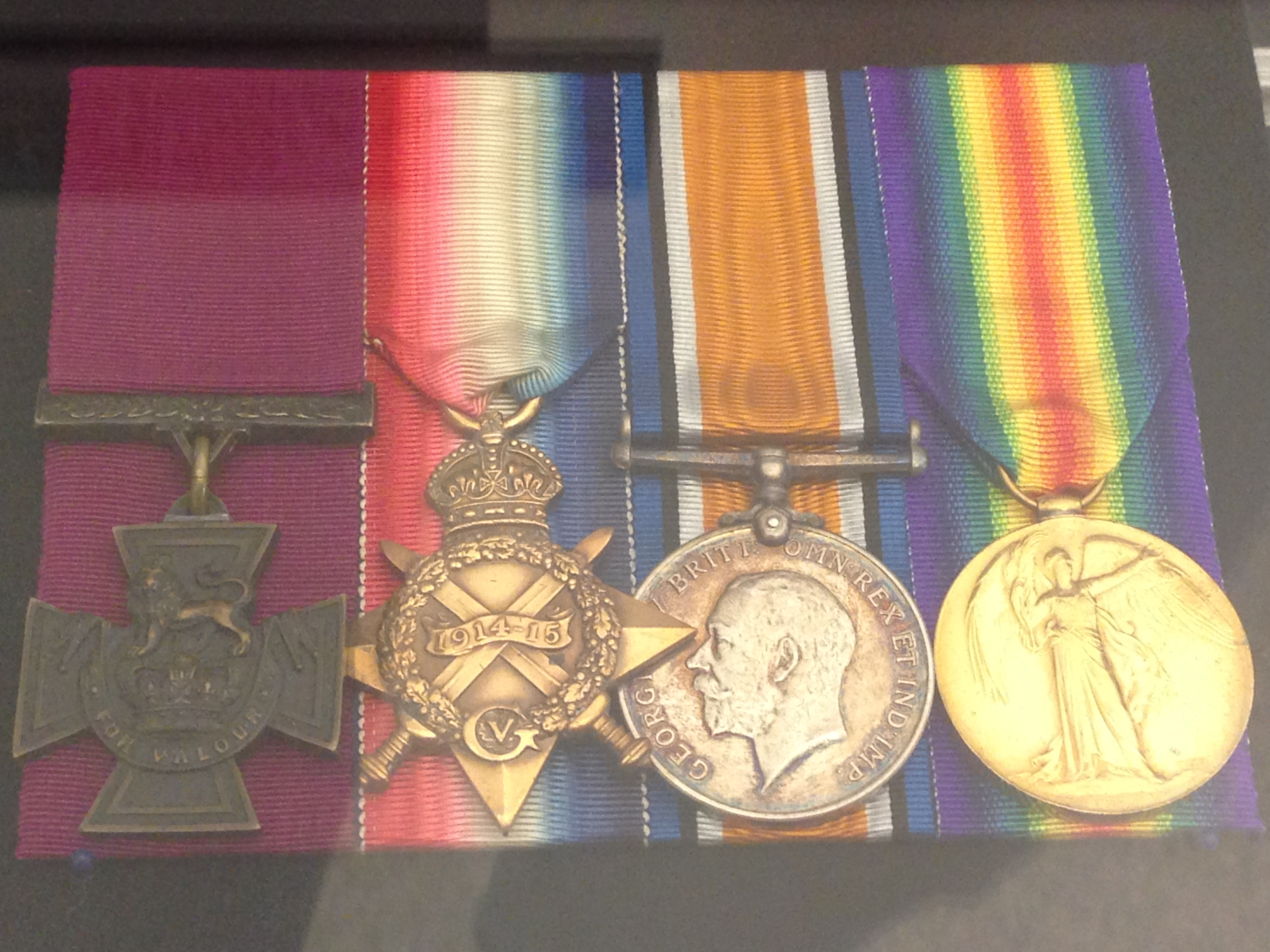 Decoration and Medals of Leo Clarke VC, on display at the Manitoba Museum, Winnipeg, Manitoba, October 19, 2014